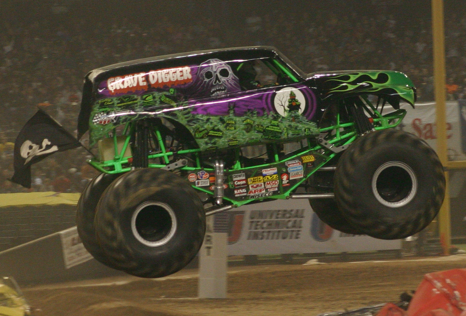 Taken by Jot Powers, 1/2006 bryan